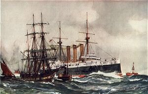 HMS Kent Passing South Sand Lightship